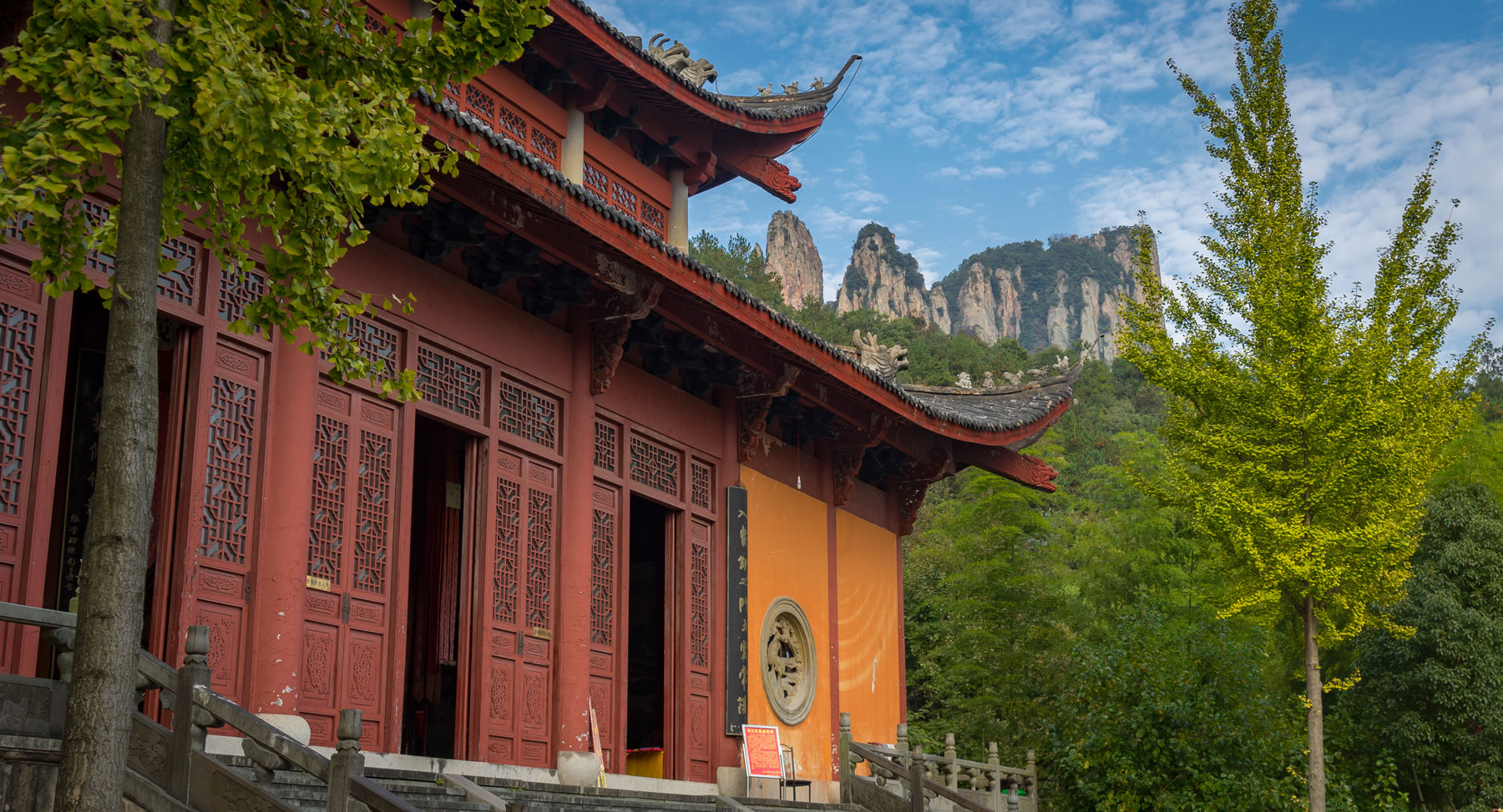 Xinhua Moutain